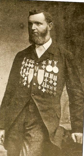 Maurice Davin